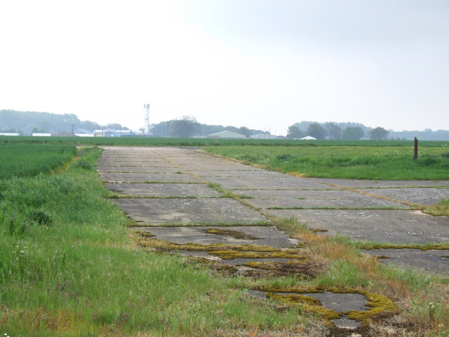 Disused WW2 runway. Picture taken at the end of the runway of the old wartime base of 109 and 582 squadrons of Bomber Command near Great Staughton.